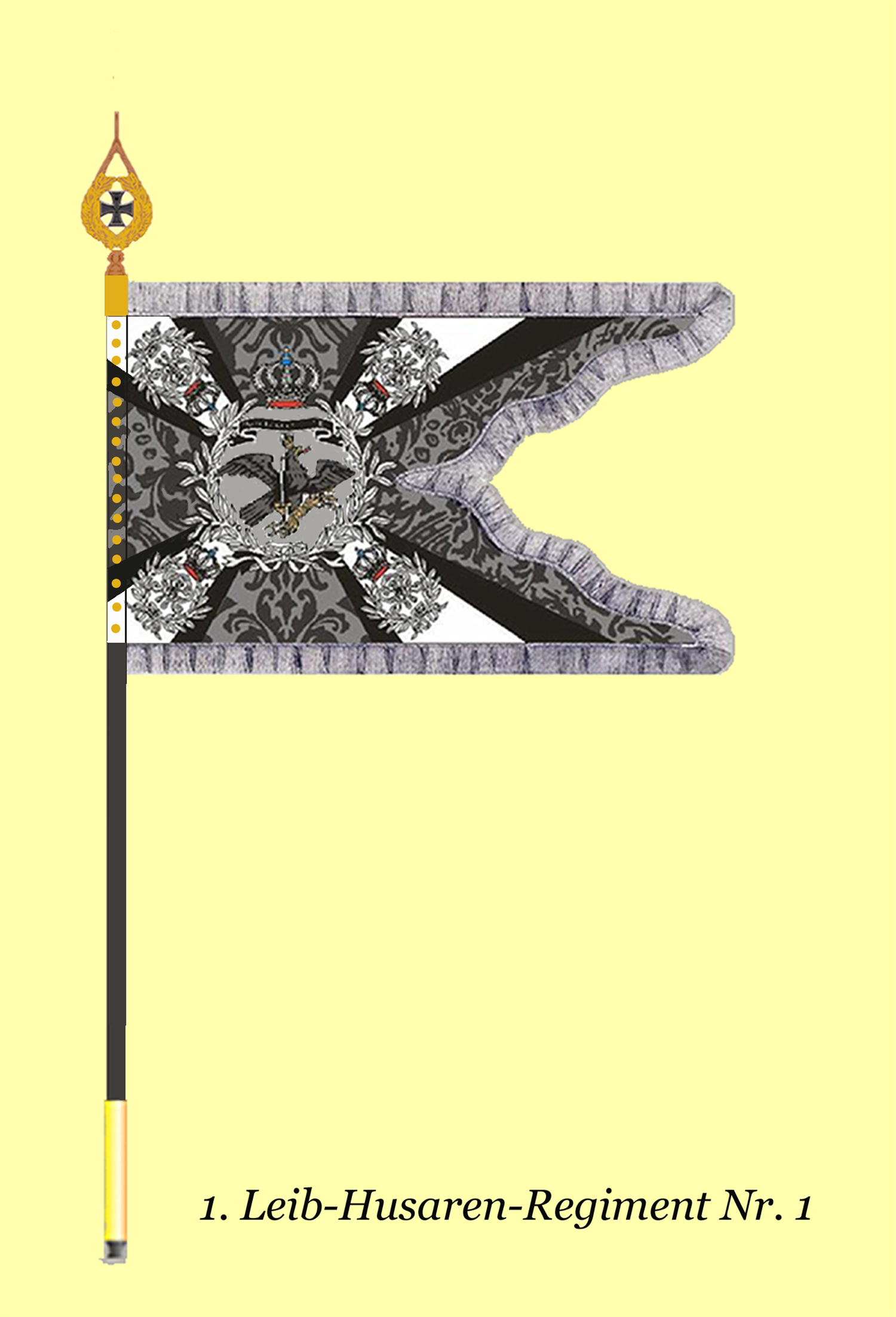 Colors of the royal prussian 1st Regiment of Hussars (1st Life Hussars)